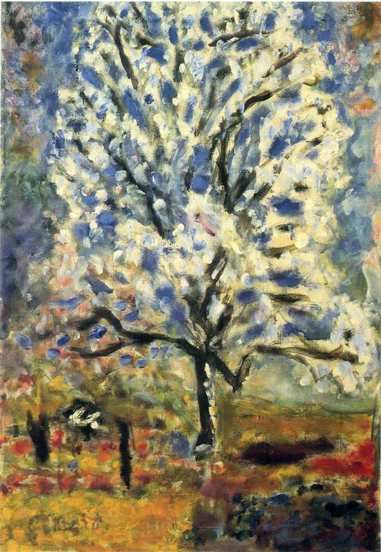 Painting by Pierre Bonnard